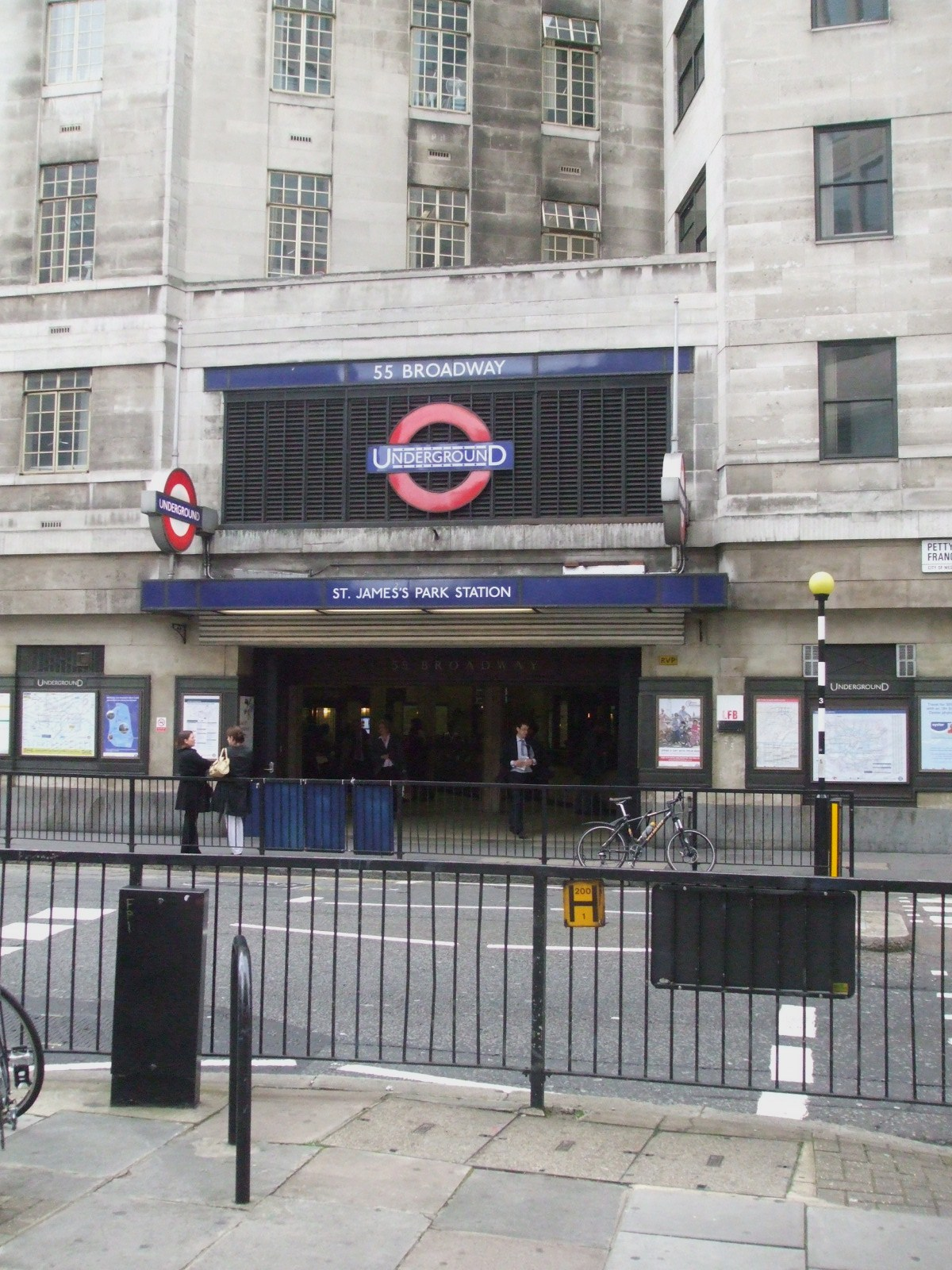 St James's Park tube station northern entrance on Petty France, located in the same building as London Underground headquarters on The Broadway.